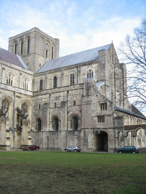 Winchester Cathedral Showing the south transept, treasury & chapter rooms.